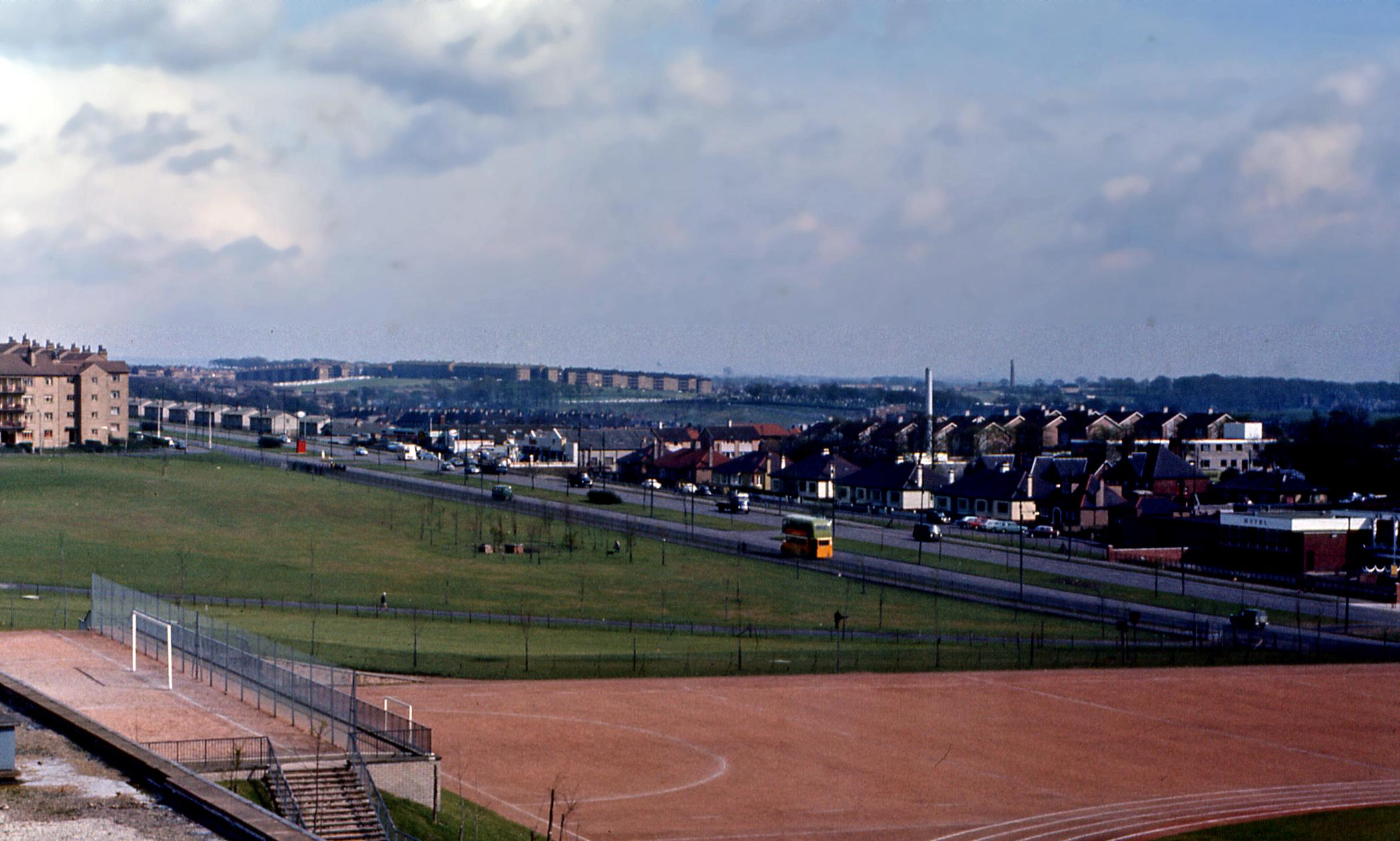 This is a view across Cranhill Park looking towards Edinburgh Road.